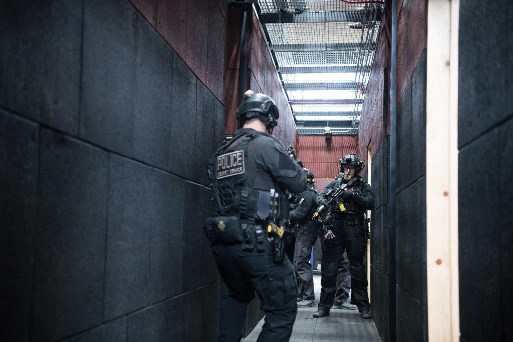 Secret Service Counter Assault Team members demonstrate their unique and unmatched skill set at the Rowley Training Center in Maryland.